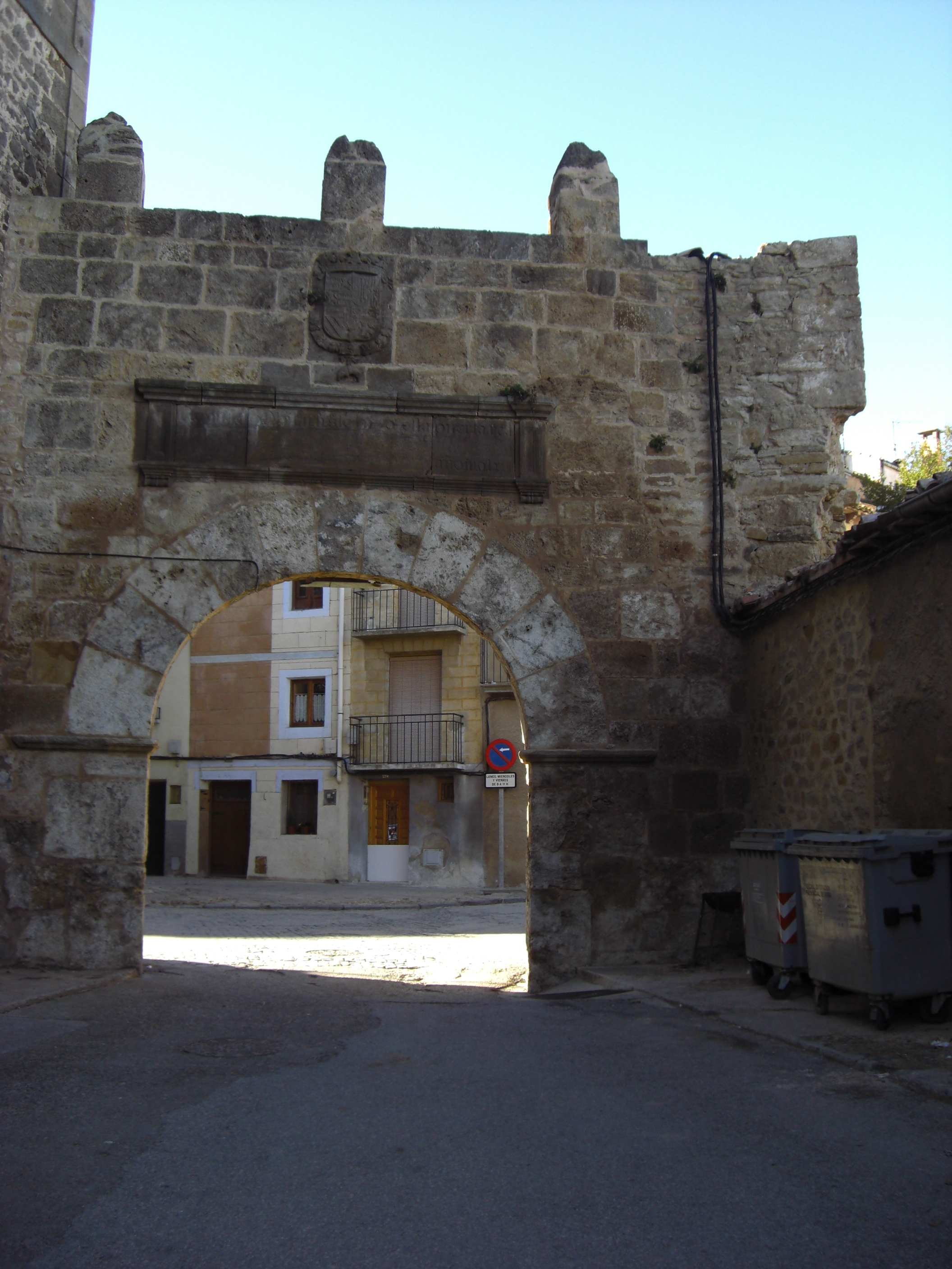 Ágreda, Soria, Spain